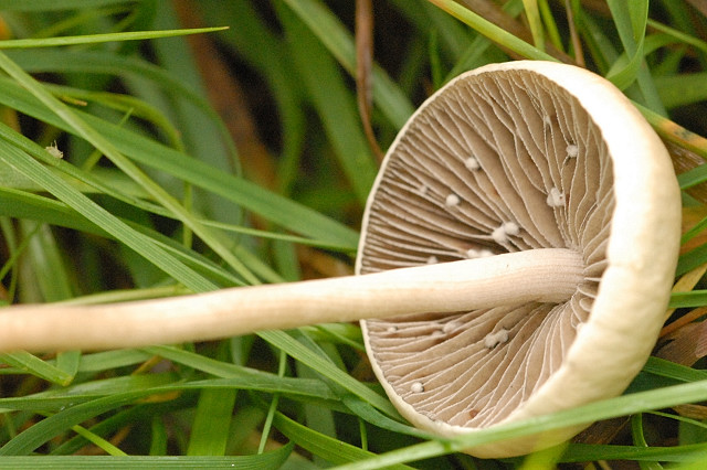 Pholiotina coprophila from Commanster, Belgium. If you think this is a different taxon, please contact James Lindsey.